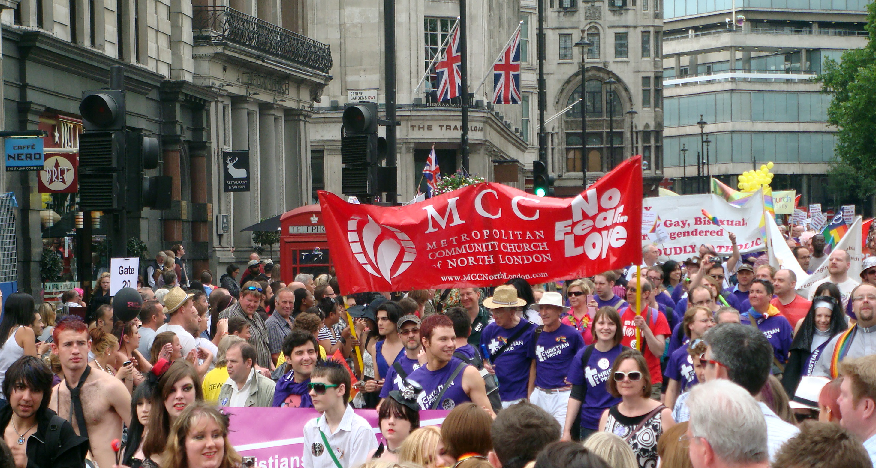 MCC banner with a group from the Metropolitan Community Church of North London.